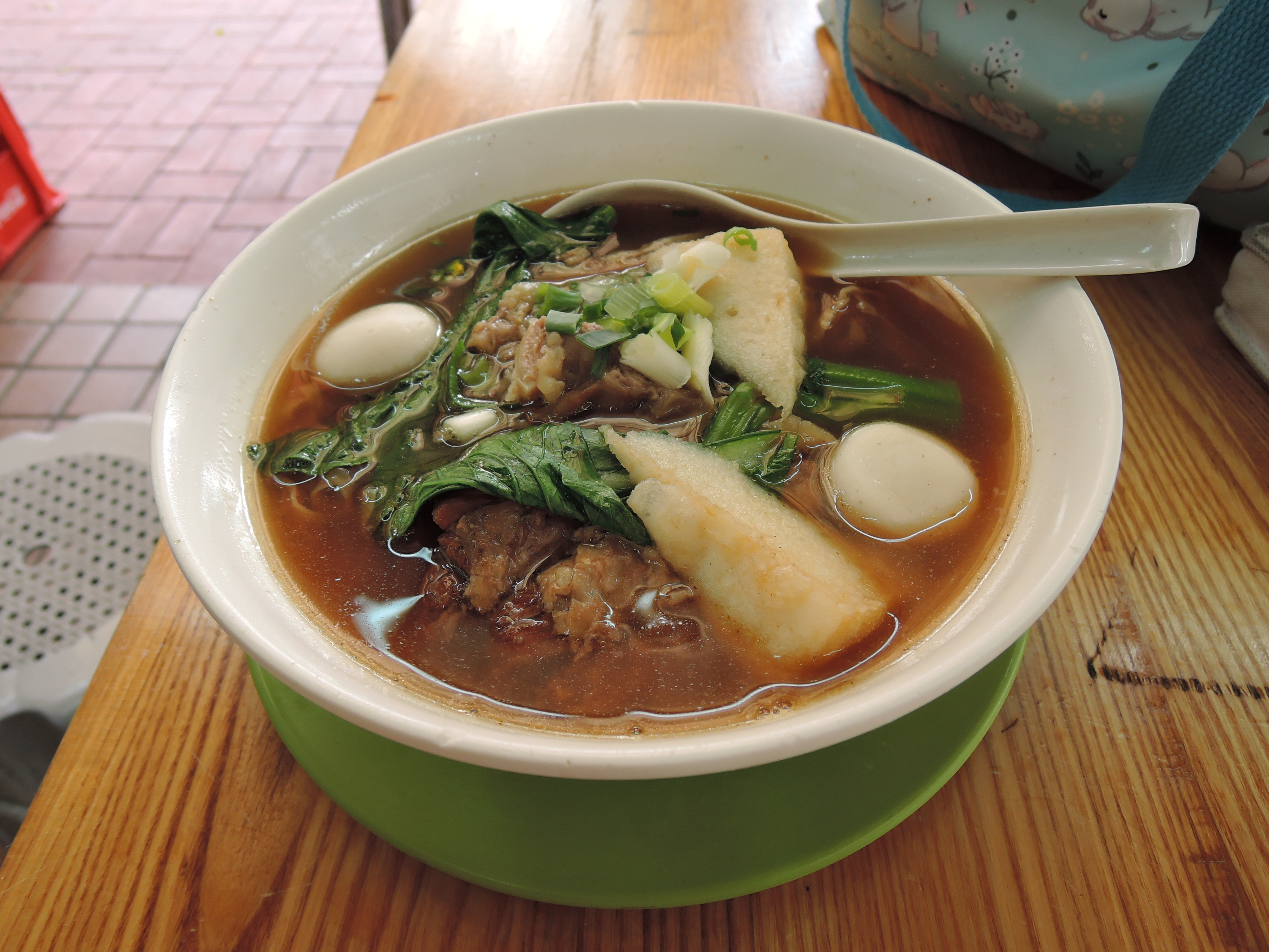 Noodle soup with beef and fish ball in breakfast at Chinese noodle shop in food market at yuen long